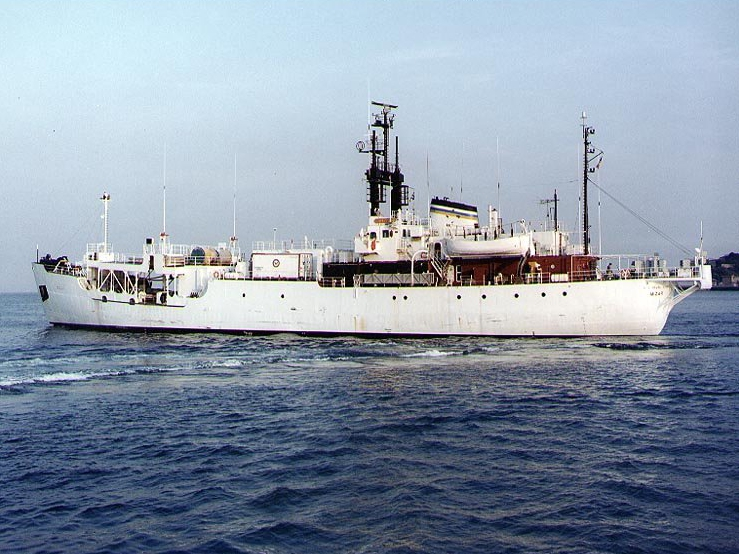 The U.S. Military Sealift Command oceanographic research ship USNS Mizar (T-AGOR-11) during the 1980s.